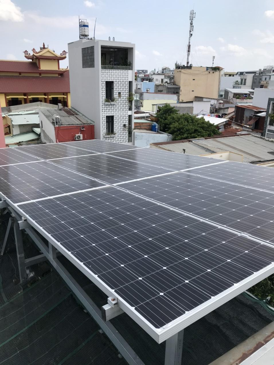 solar in saigon